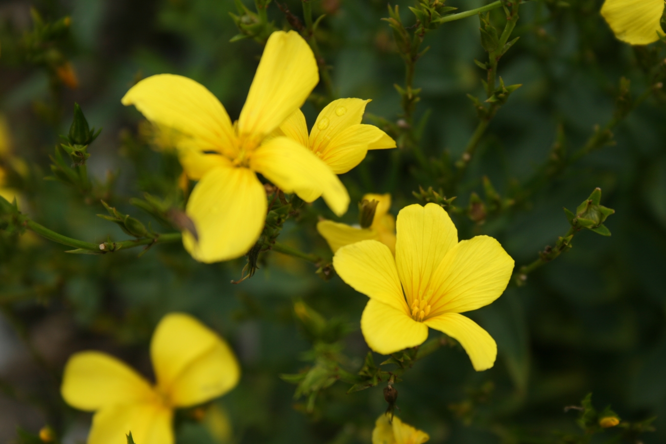 Linum flavum: Flower.